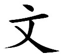 Chinese radical 067 character 文 'wen', U+6587, meaning 'literature'